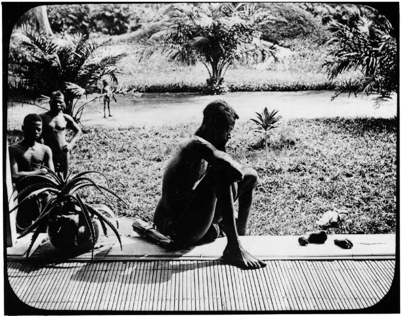 See File:Nsala of Wala in the Nsongo District.tif